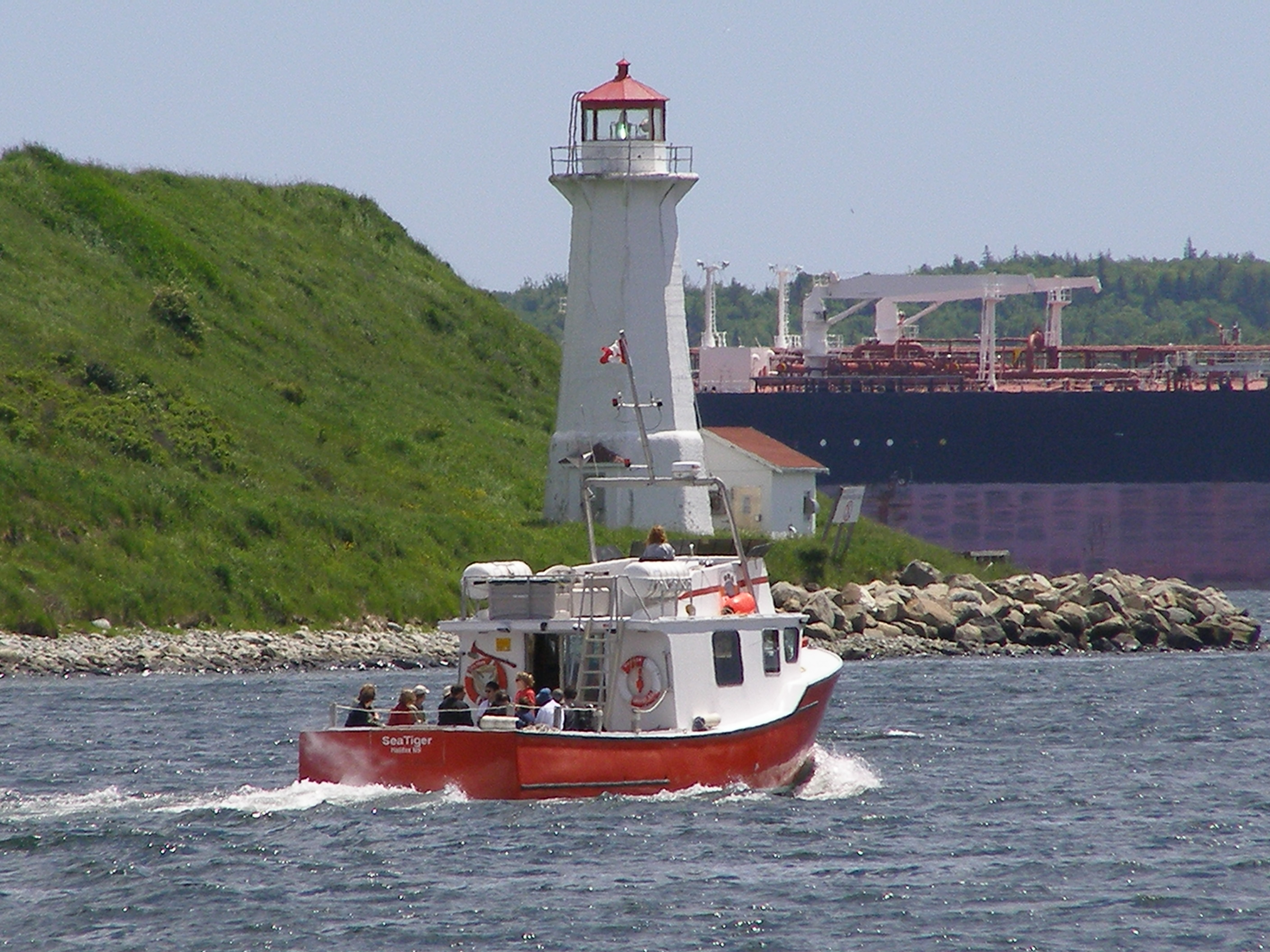 a Tuesday afternoon on the Halifax harbour (July 3 2007)